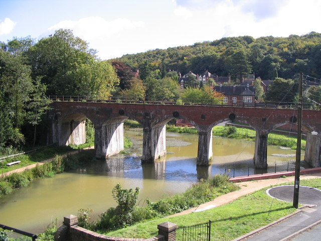 The Upper Furnace Pool. Part of the water management scheme for the Coalbrookdale foundries, this provided water to power the bellows for the blast furnaces, and the turning and grinding machines. The railway viaduct was built in 1862-64 to carry trains from Wellington to Craven Arms. It still carries trains, taking coal to the Ironbridge power station.